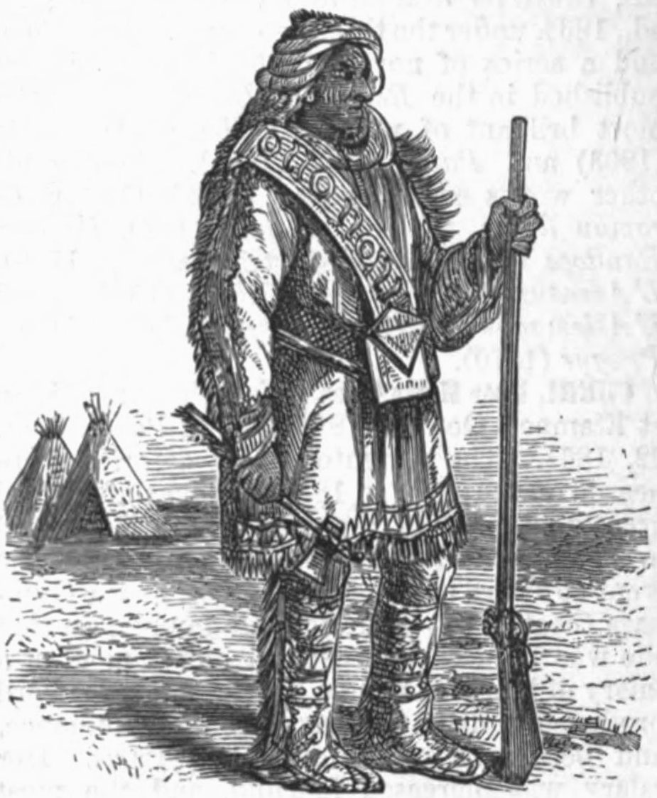 Drawing of a Cherokee man standing.